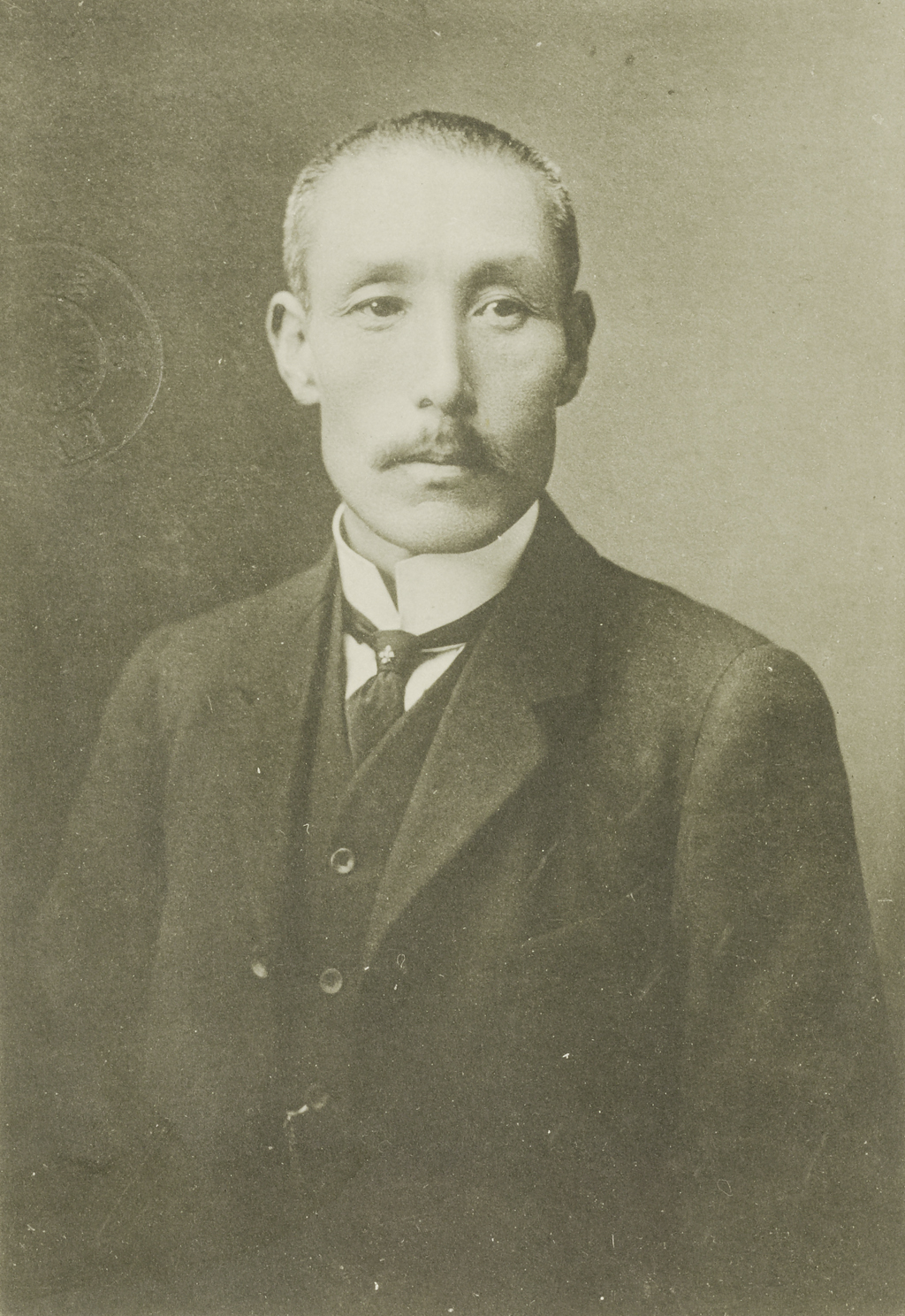 Tsunashirō Wada was a mineralogist in Japan.